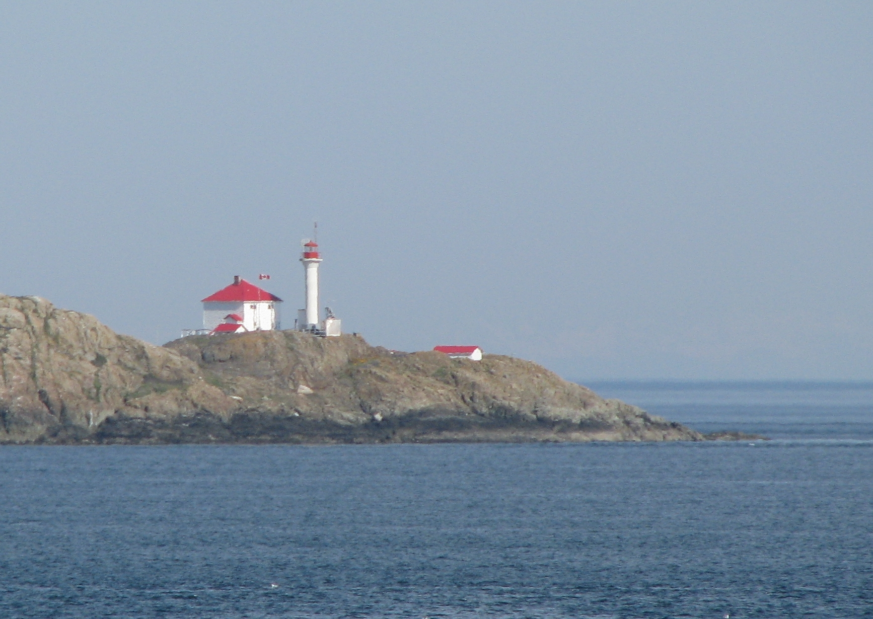 Trial Island Lighthouse off Victoria BC taken from Clover Point